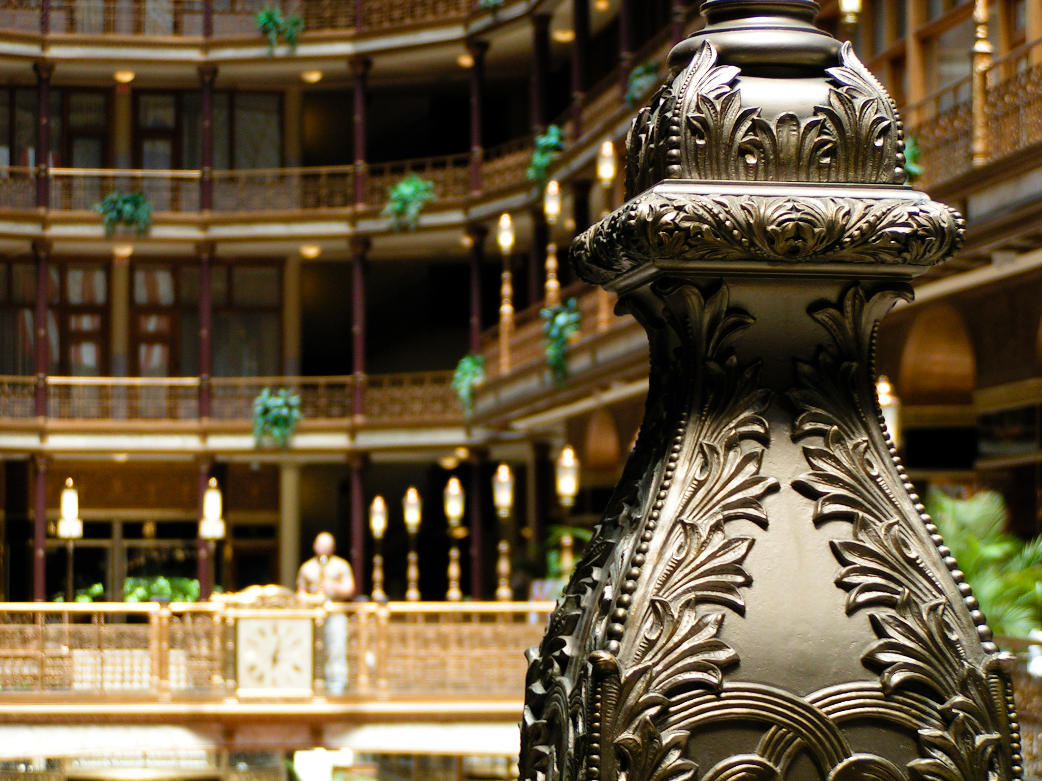 Lunchtime sax player at the Old Arcade, Cleveland